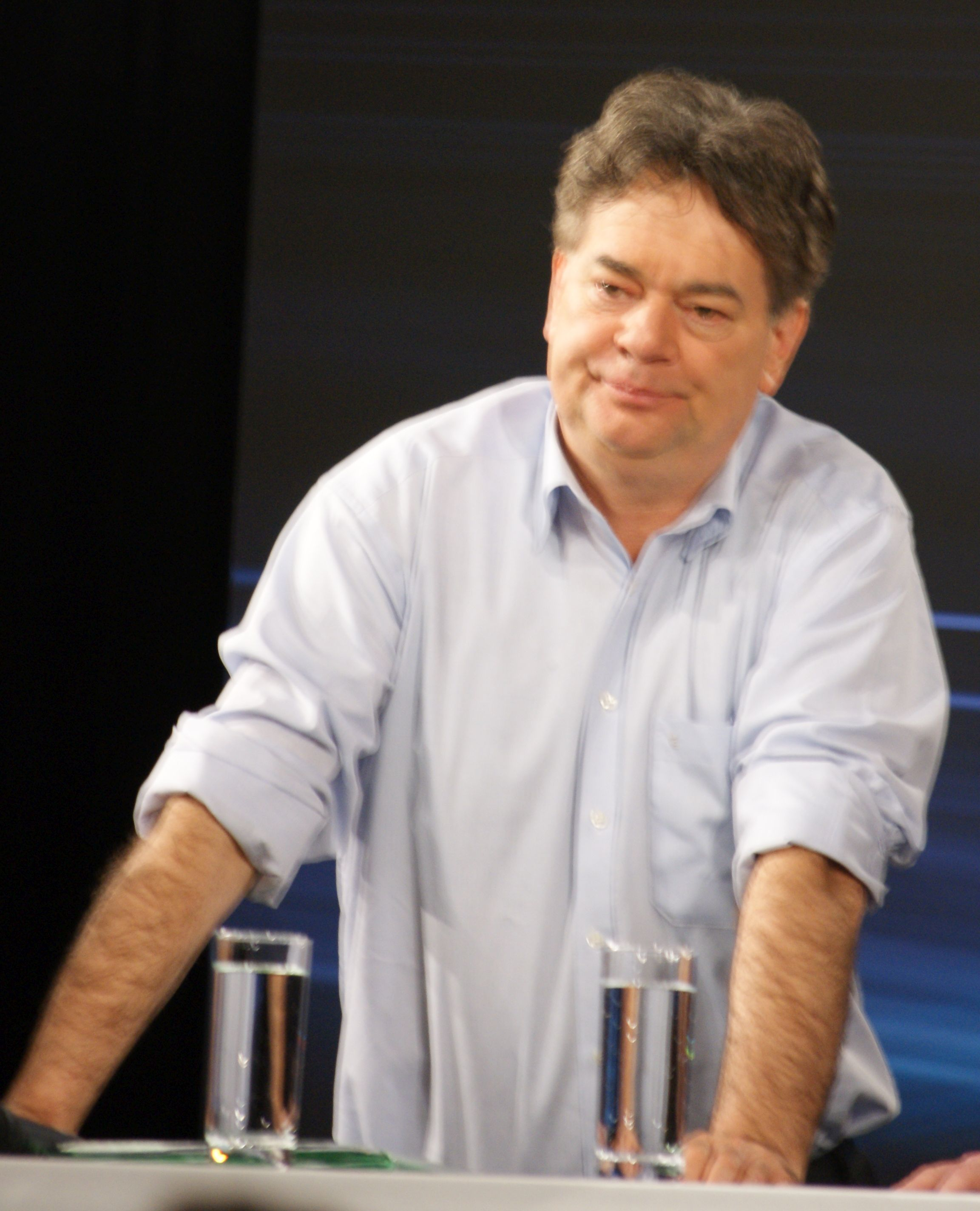 Werner Kogler (GRÜNE) in the Discussion meeting on April 10, 2019, for the European elections 2019 in the Vonimnasaal in Rankweil, Vorarlberg, Austria with the top candidates.